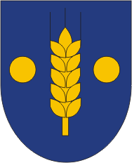 Coat of arms of Sõmeru vald, Estonia